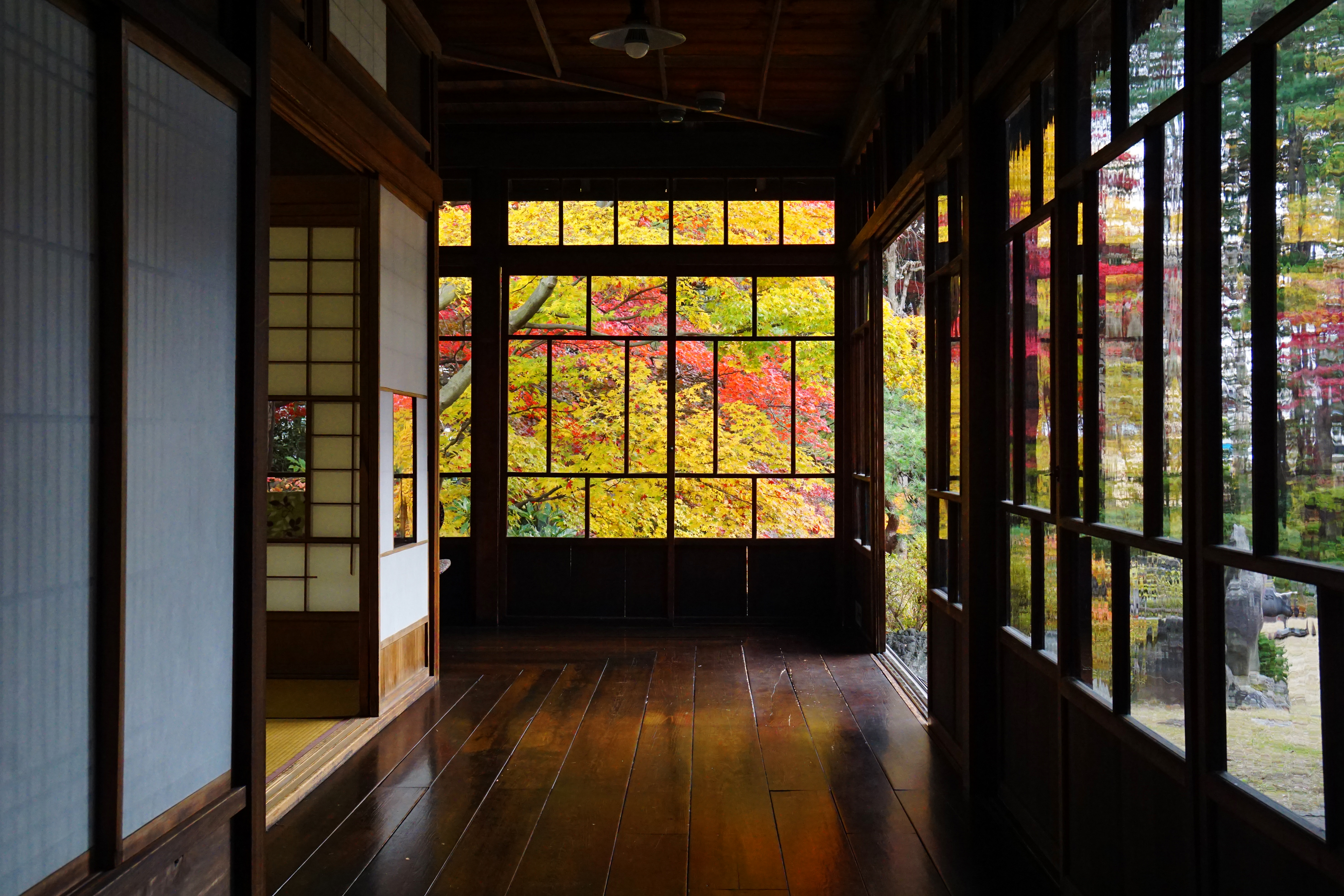 Nanshoso in Morioka, Iwate prefecture, Japan